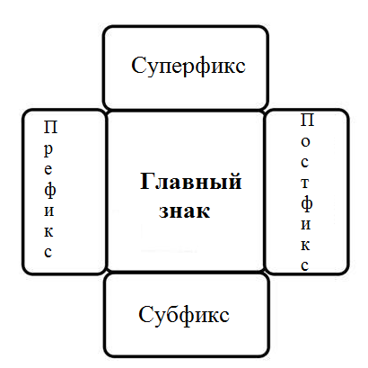 Иероглифы майя